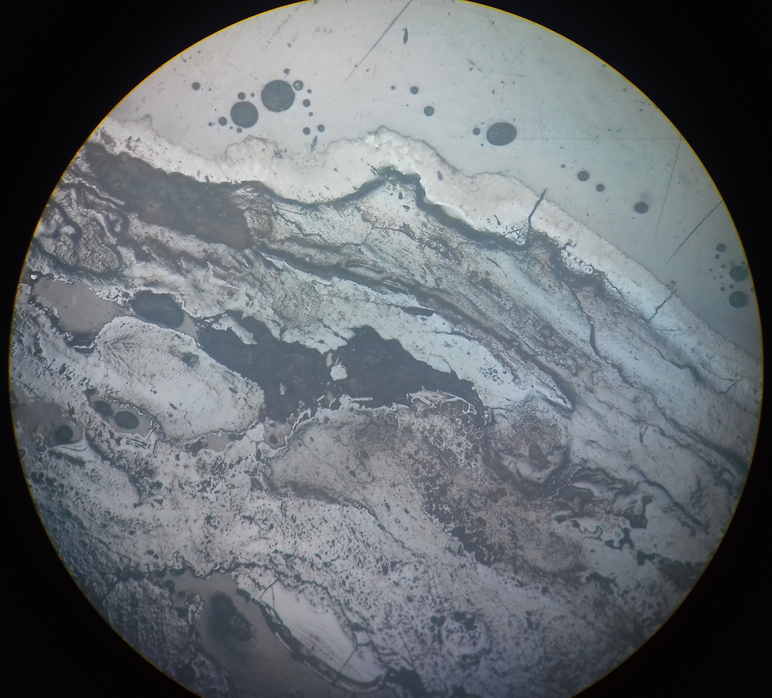 Goethite under reflected microscope Nic. //